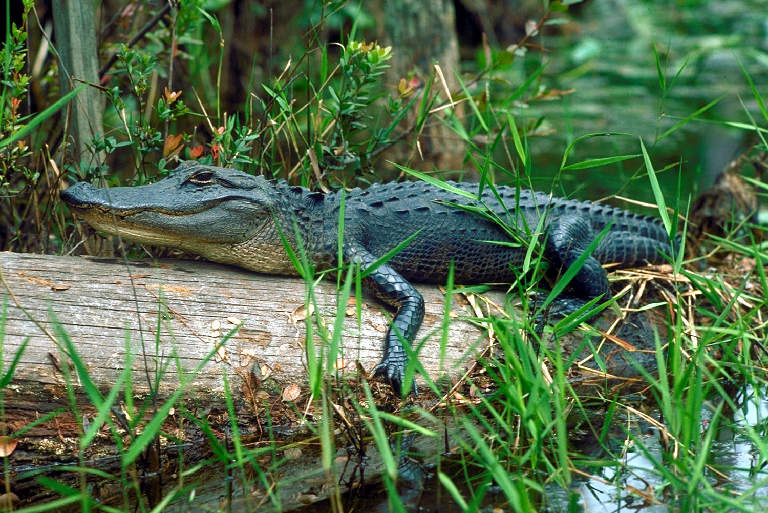 A young alligator sunning itself in the Okefenokee Swamp, Georgia, USA